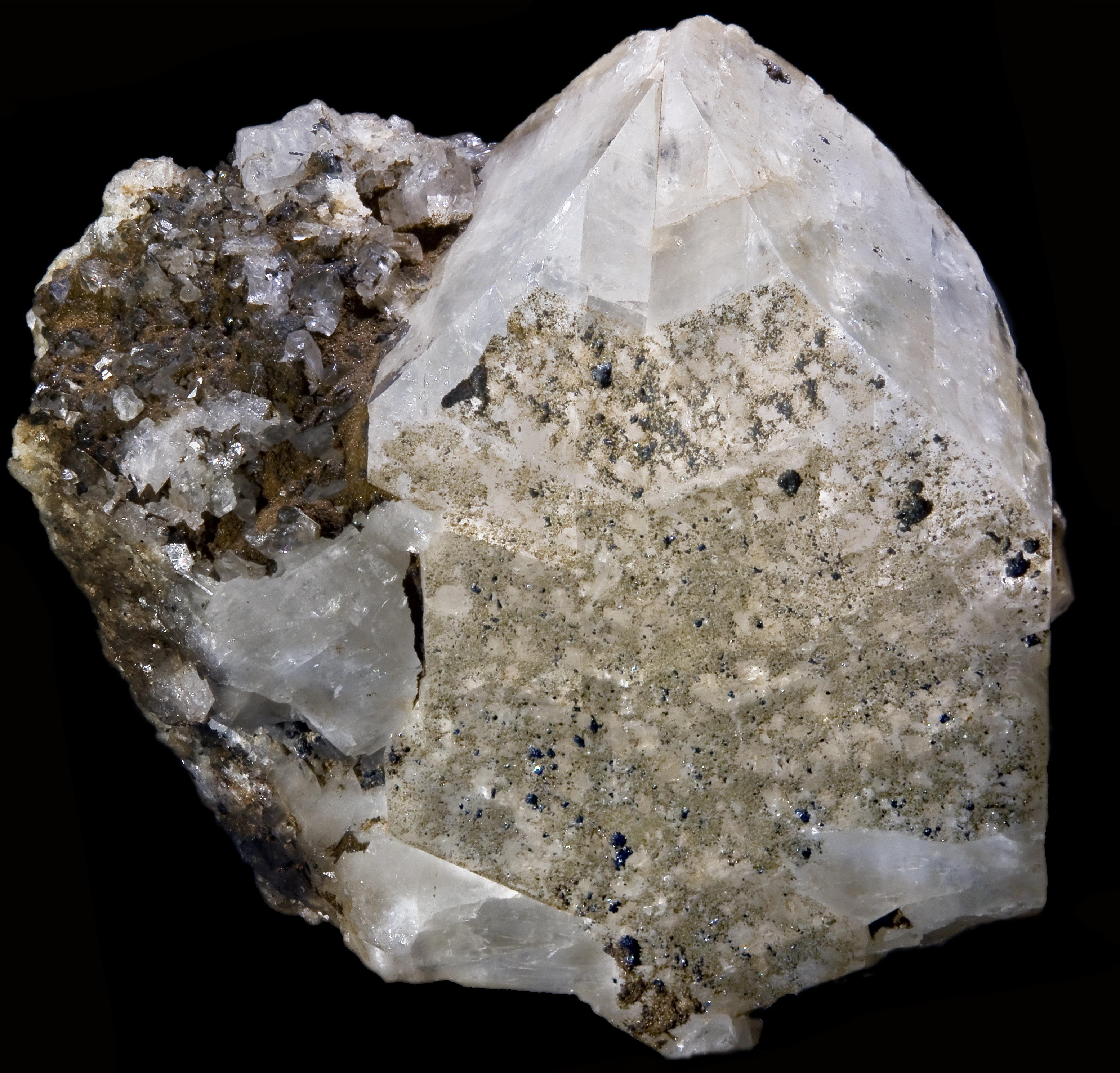 Adularia (Orthoclase)- Manebach Twin - Adula Mts, Ticino (Tessin), Switzerland (7x6.5cm)